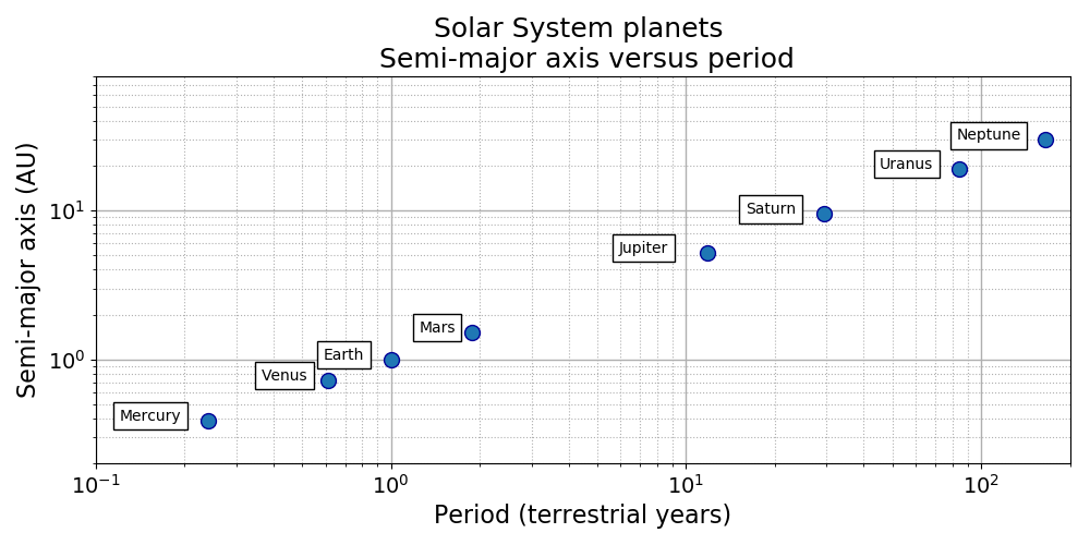 Log-log plot of the semi-major axis (in Astronomical Units) versus the orbital period (in terrestrial years) for the eight planets of the Solar System. Data from NASA